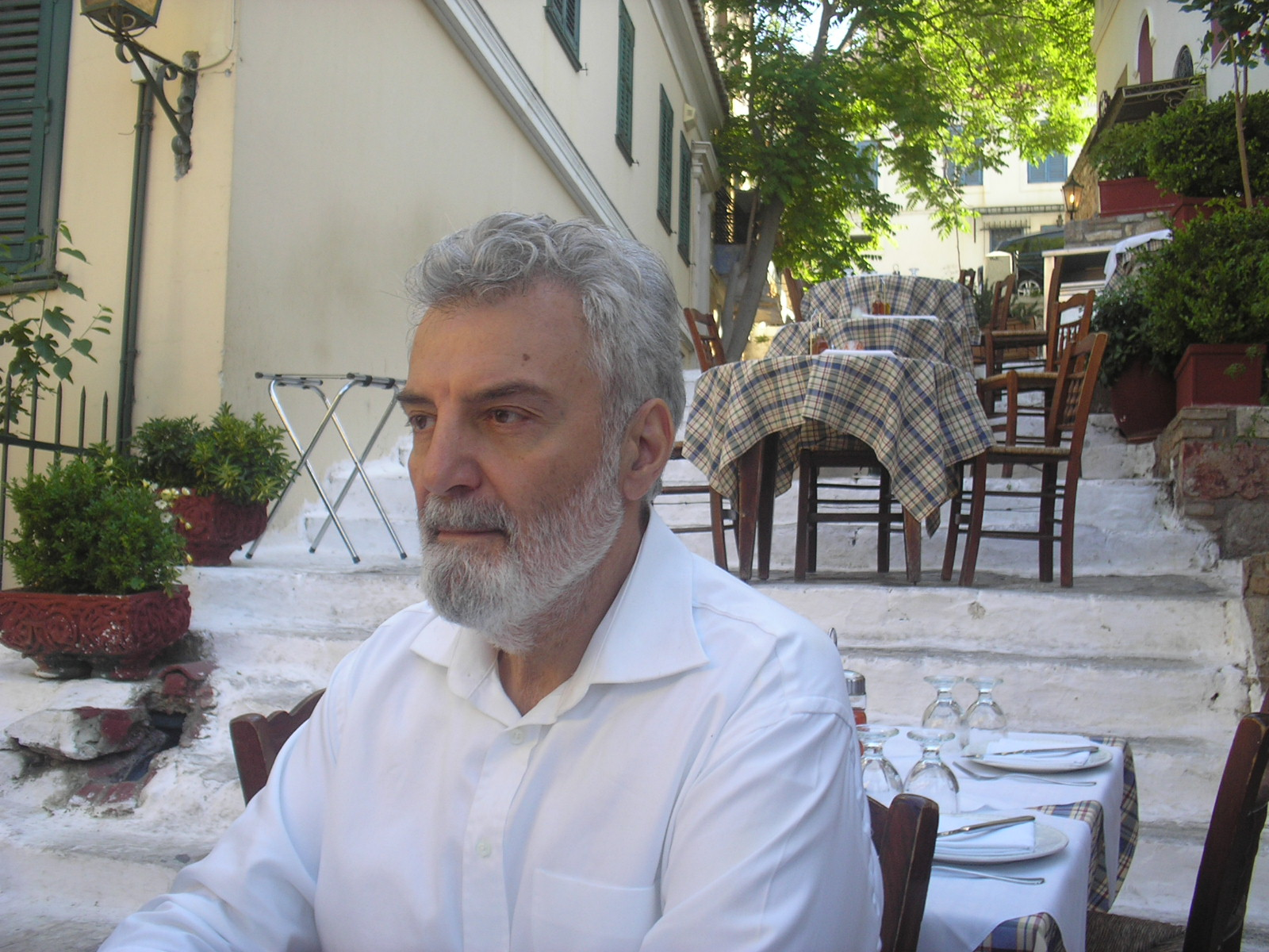 Isidore Kioleoglou President of the Ionic Center